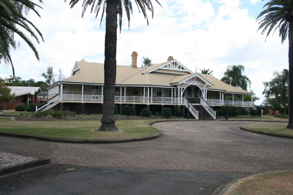 Foundation Building UQ Gatton Campus from SW (2009)